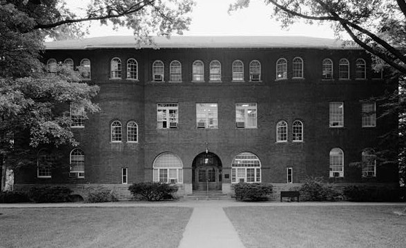 Berea College, Lincoln Hall, Berea College, Berea (Madison County, Kentucky)